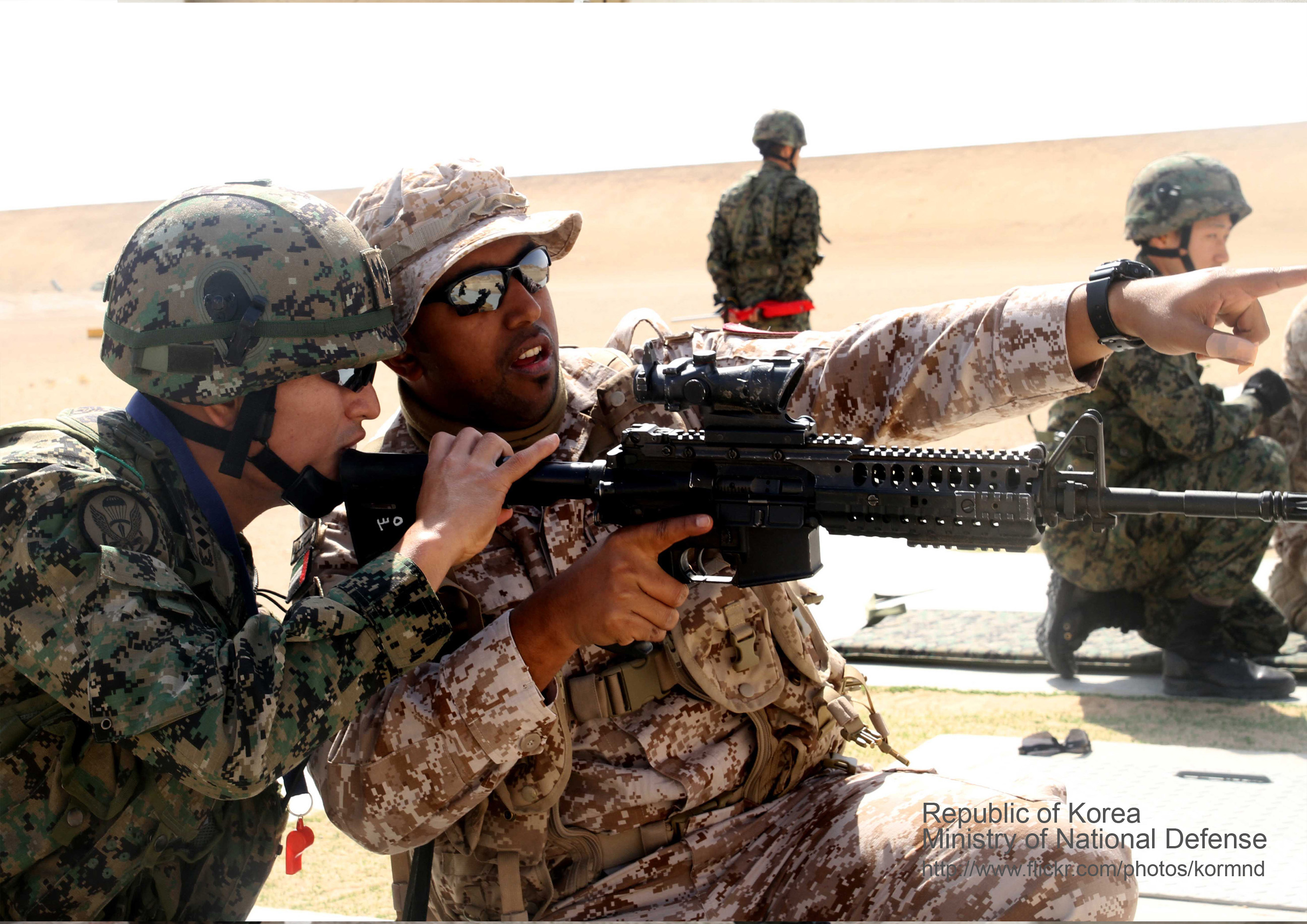 Republic of Korea The Akh Unit in UAE